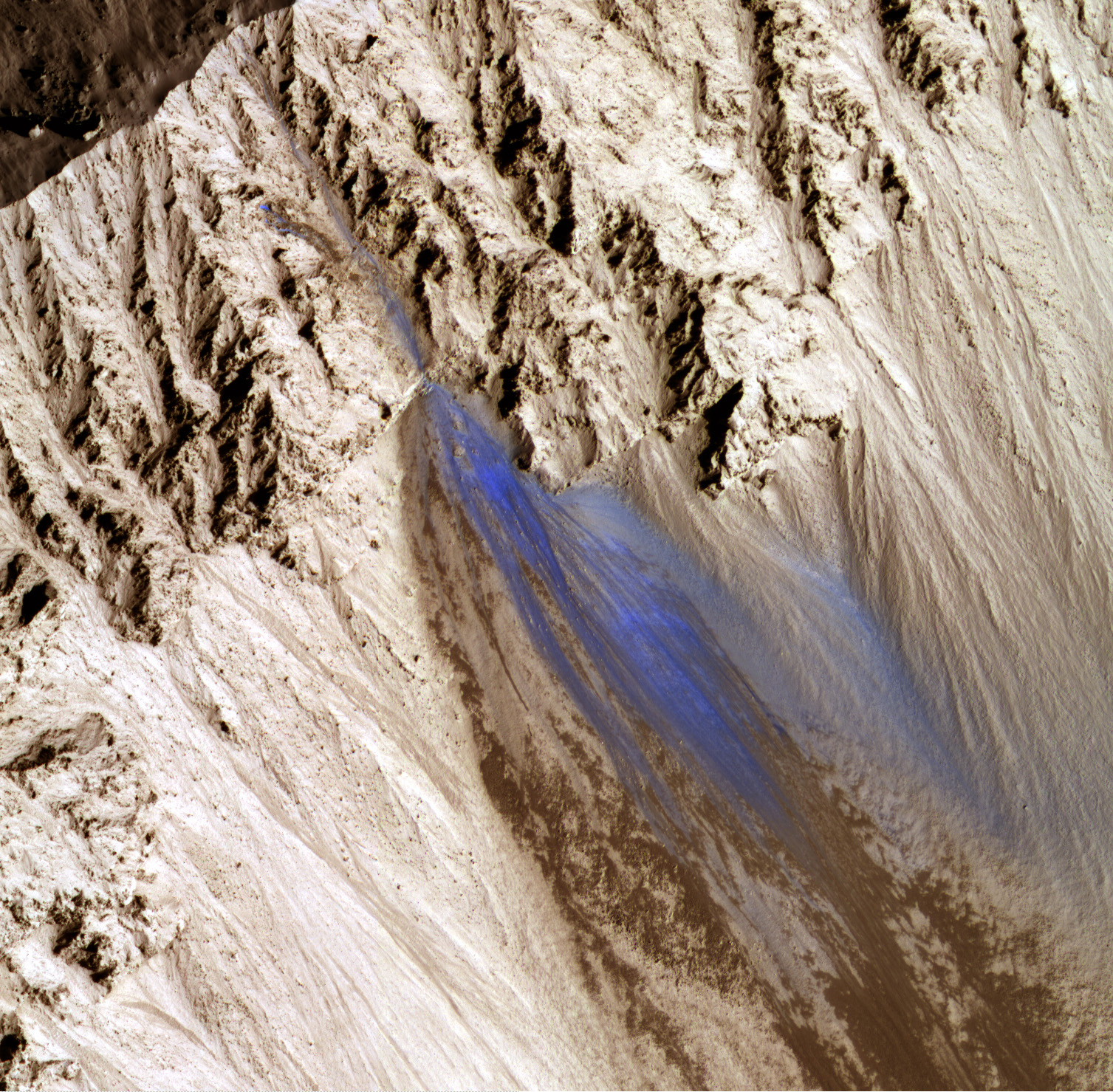 Landslide on Mars. False colour view of a landslide in Zunil crater. The blue area represents the landslide debris, which hasn't been covered by the off-white Martian dust. This color image shows a portion of the southeast inner wall of Zunil, a geologically recent (less than about 10 million years old) well-preserved 10-km impact crater. The color and albedo patterns indicate that a landslide occurred here very recently--too recently to have been re-covered by dust. The landslide could have been triggered by a Marsquake or a small impact event. Monitoring Mars for changes such as this will help us to better understand active processes. The color image has North down, which also places downhill down and helps us to interprete the topography. However, we are in fact looking down from directly above the crater.